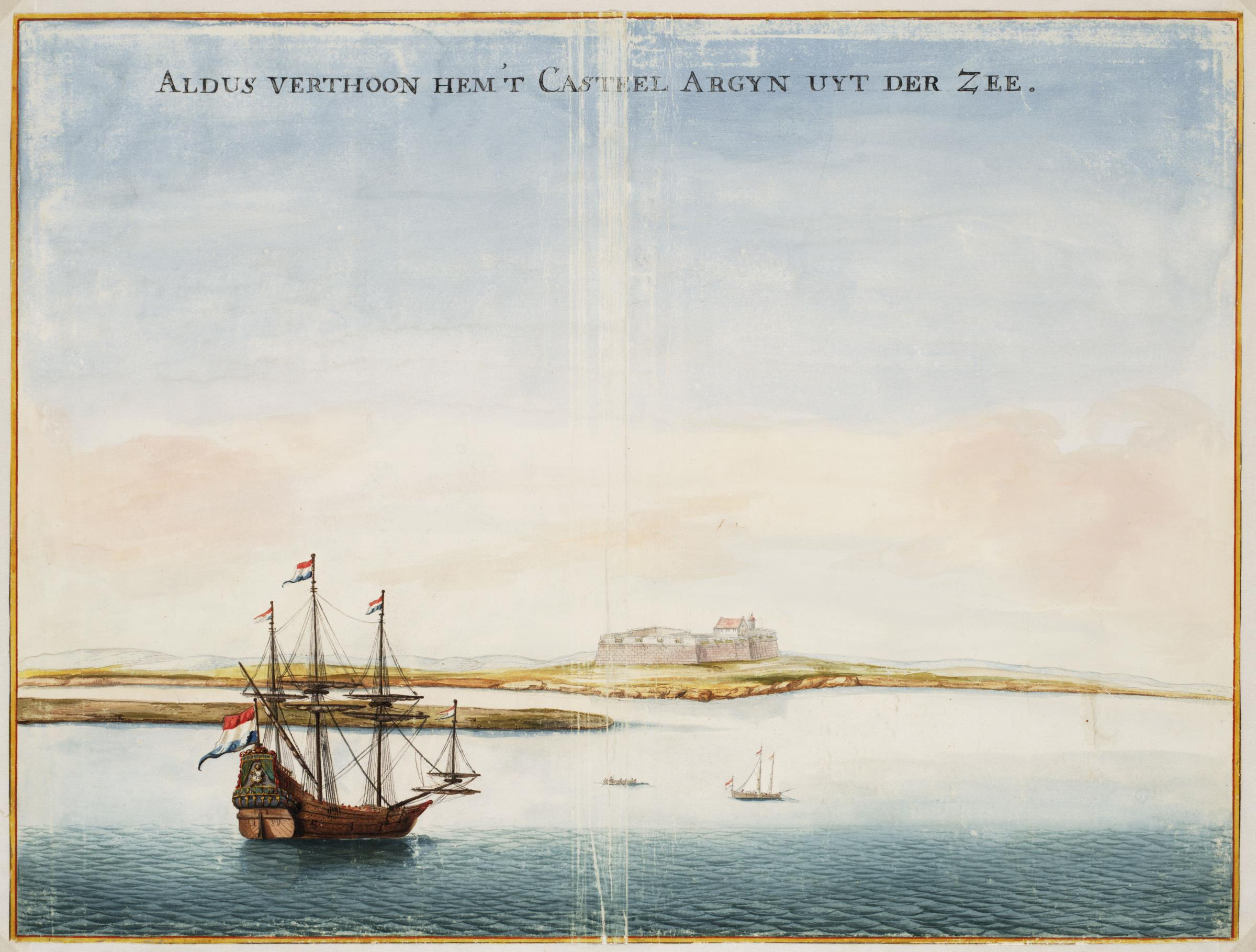 Title in the Leupe catalogue (NA): Gezicht op "'t casteel Argijn uit der zee.". View of the castle at Arguin. Aldus verthoon hem't Casteel Argyn uyt der Zee. Remarks: the image is contained in the Vingboons Atlas.